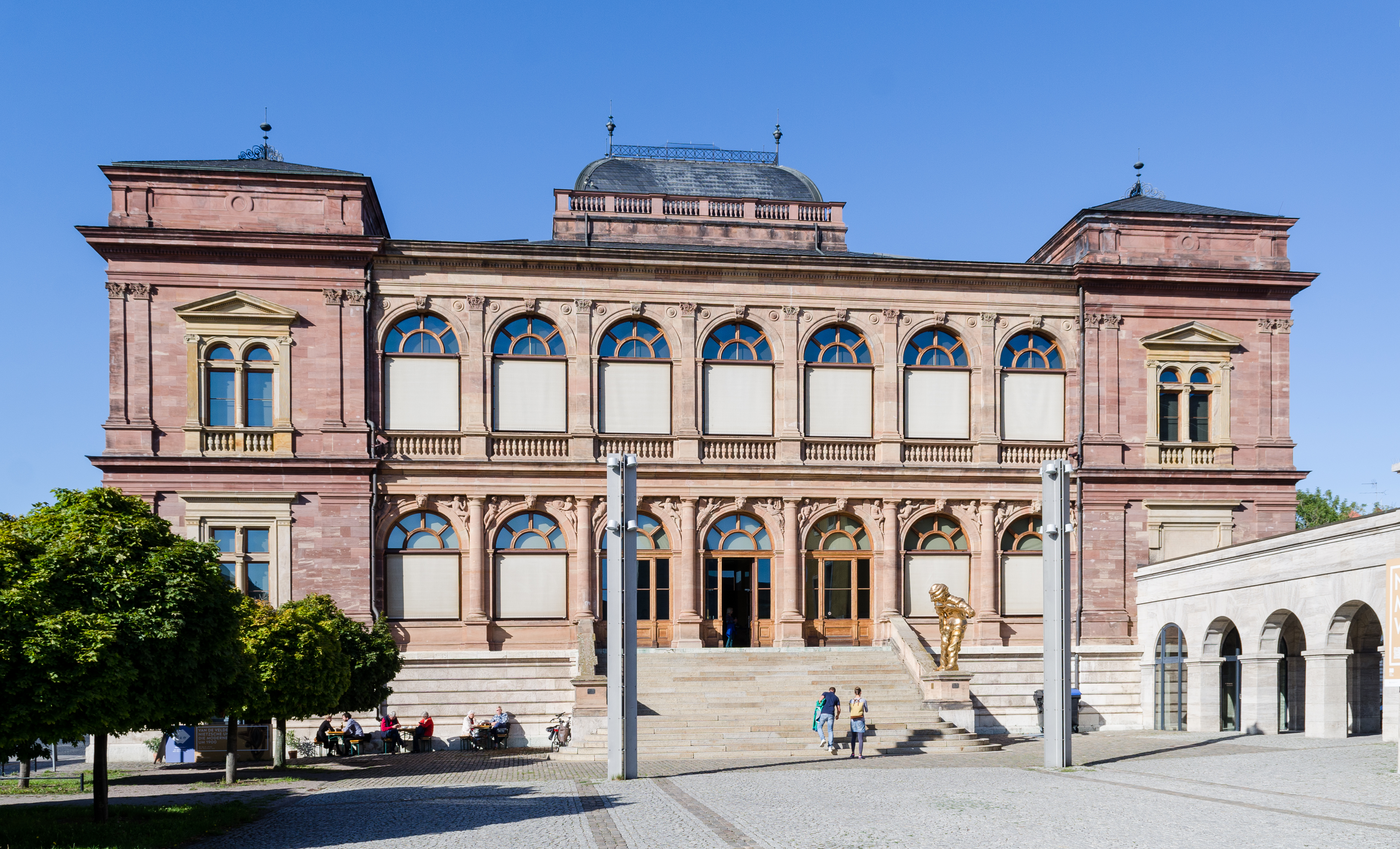 Weimar (Thuringia, Germany) – New Museum – southern facade